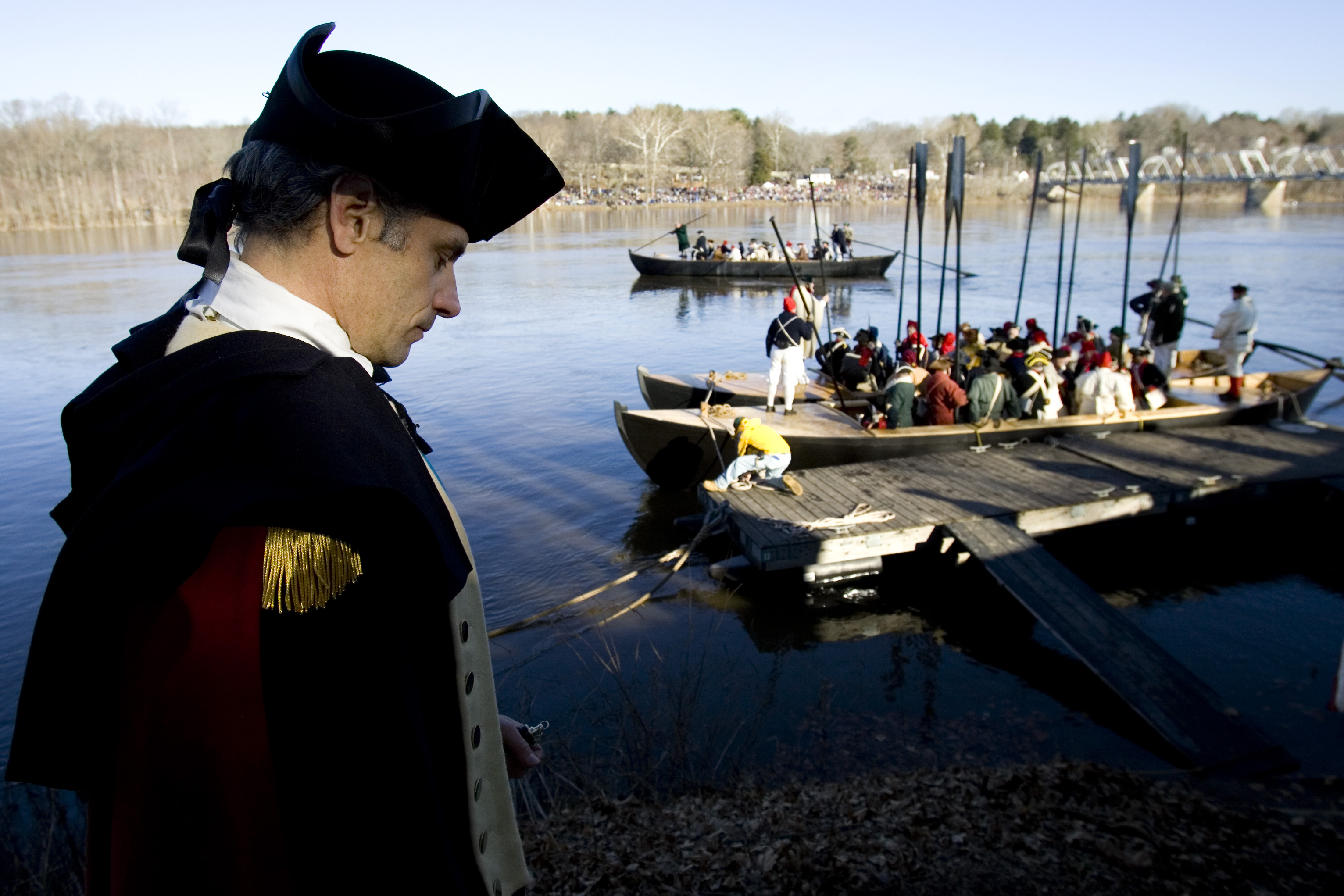 Scope and content: The original finding aid described this photograph as: Original Caption: Durham boats full of colonial soldiers wait in the waters of the Delaware River on Christmas morning, while General George Washington contemplates the surprise attack on the Hessian's encampment at Trenton during the reenactment. Location: Trenton, New Jersey Status: Public domain.